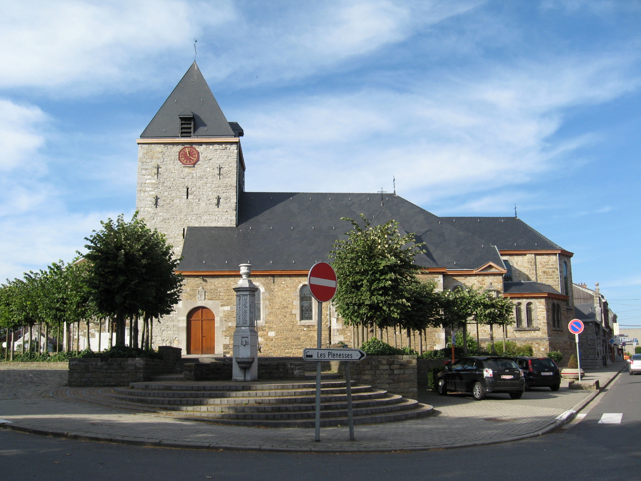 Church of Saint Lawrence in Adrimont, Dison, Liège, Belgium